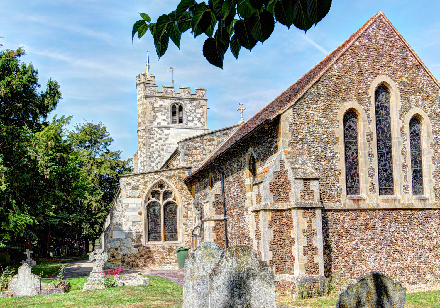 St Nicholas Churchyard & Church